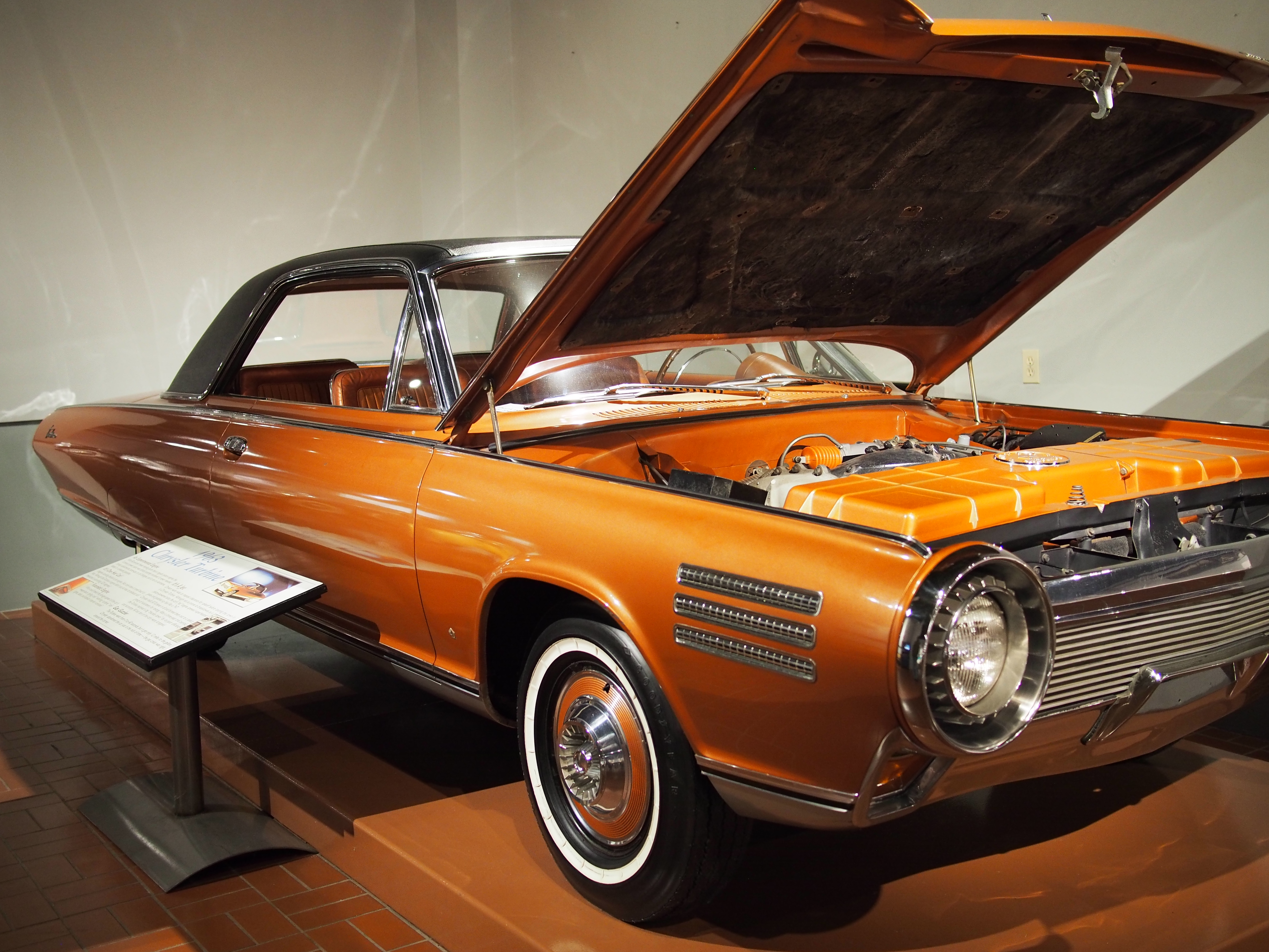 1963 Chrysler Turbine experimental car